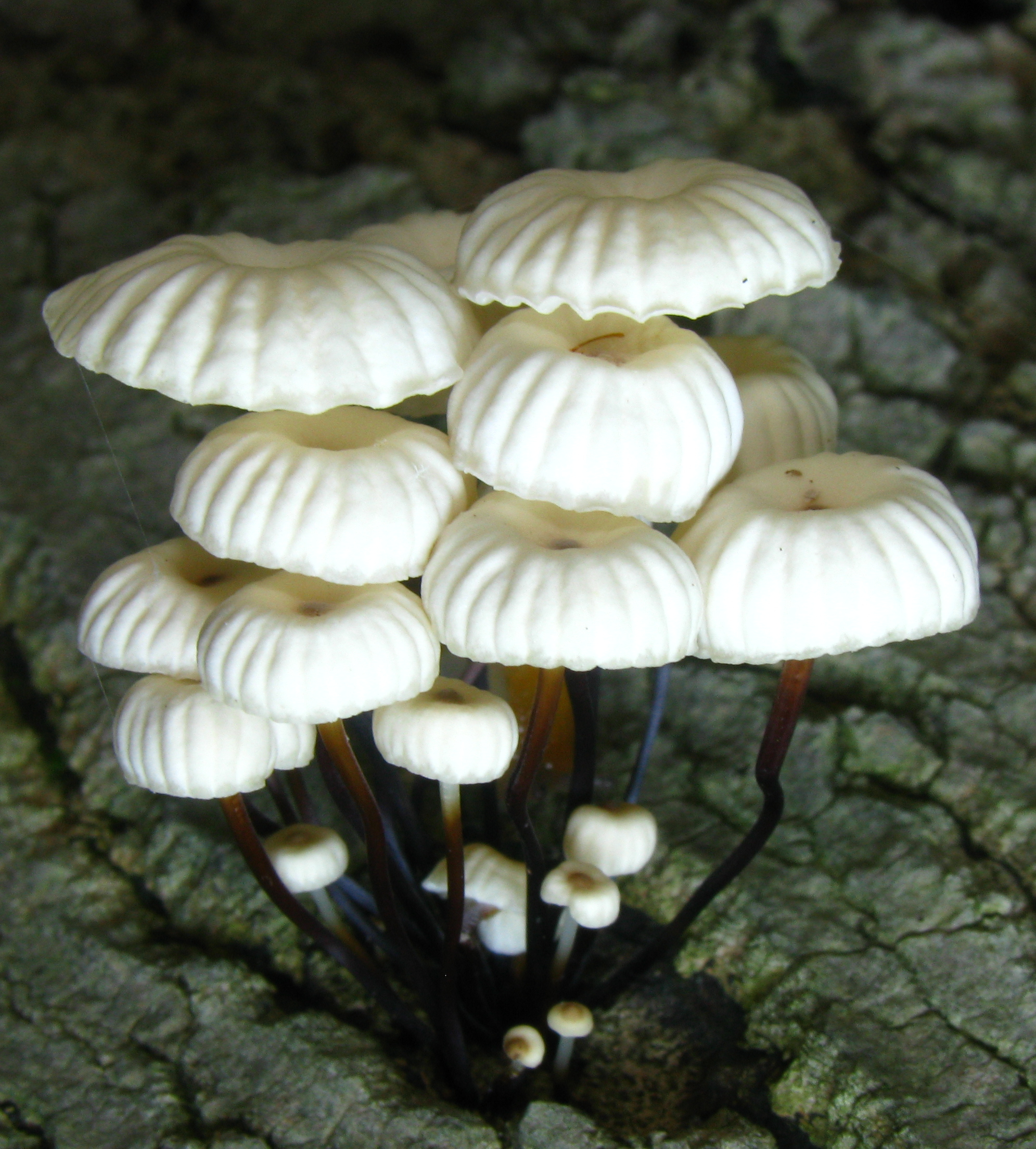 Marasmius rotula Location: The Ridges, Ohio University, Athens, Ohio, USA. For more information about this, see the observation page at Mushroom Observer.